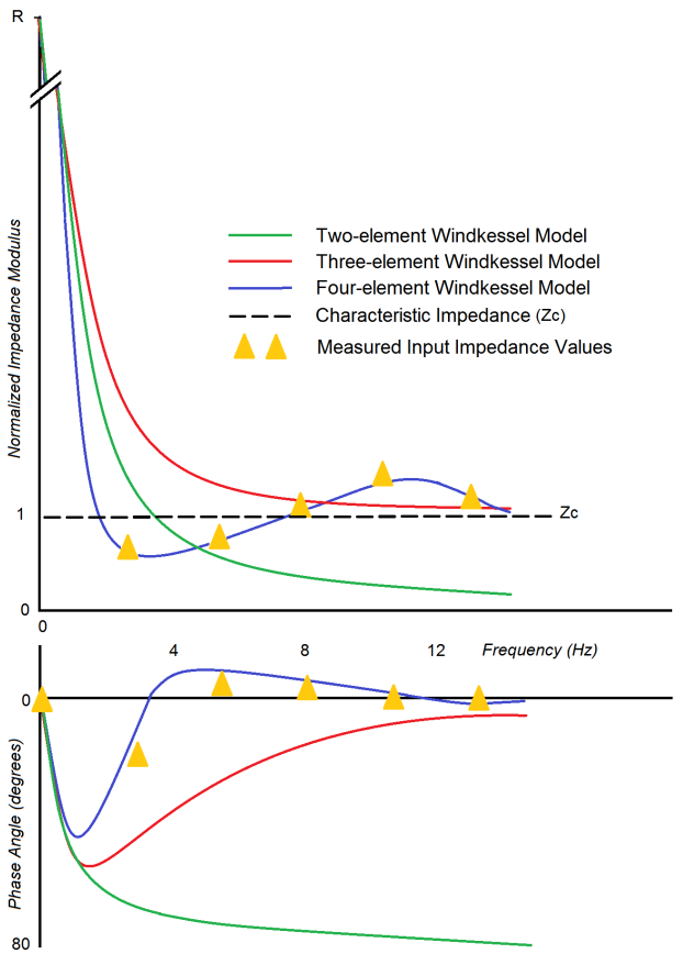 Theoretical depiction of input impedances and phase angles of different Windkessel models of an arterial system. Addapted from "Westerhof N, Lankhaar JW, Westerhof BE. The arterial Windkessel. Med Biol Eng Comput. 2009 Feb;47(2):131-41"